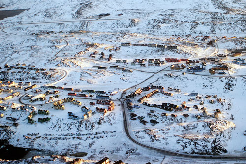 Picture of Nuuk (Greenland).